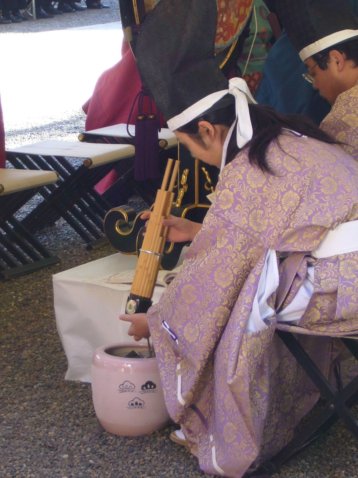 Warm a sho over a brazier,a wind instrument composed of a mouthpiece and seventeen bamboo pipes of various lengths ,sho,katori-jingu-shrine,katori-city,japan